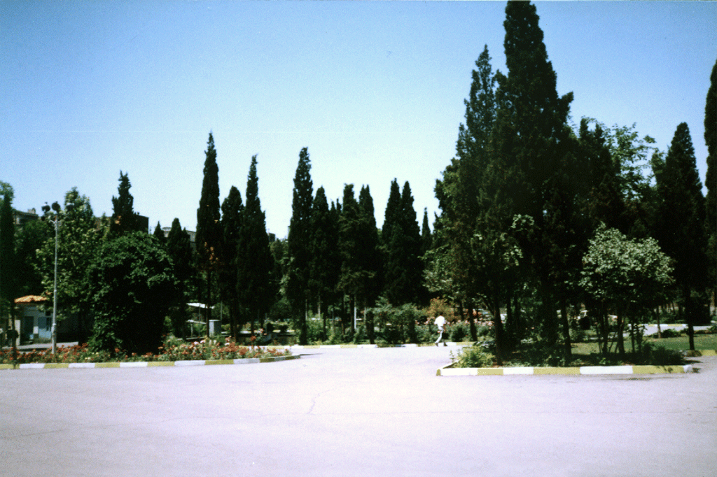 The entrance area of Alborz Highschool. Tehran, Iran.